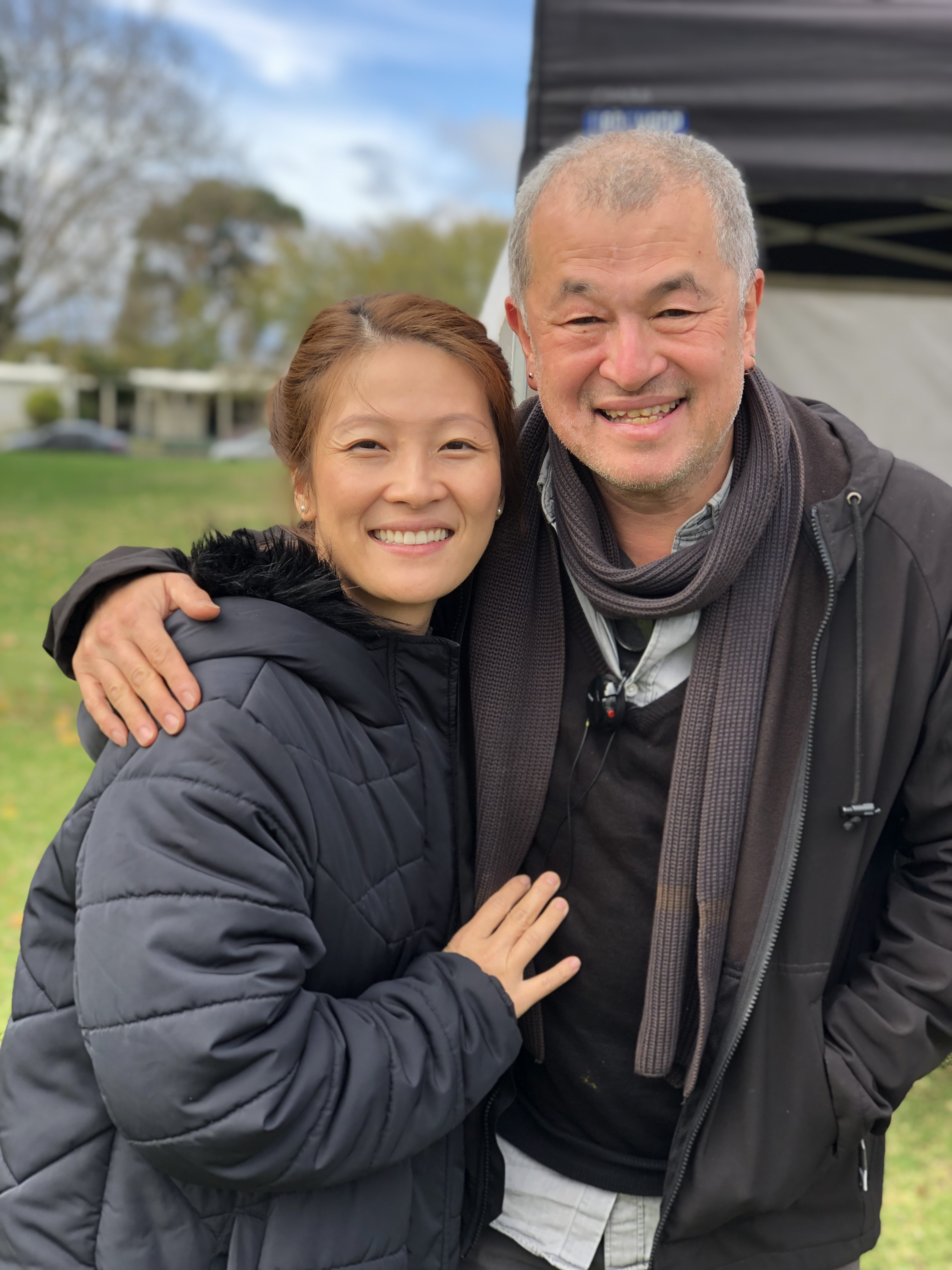 Image of Oakley Kwon and Shawn Seet on the set of Hungry Ghosts in Melbourne, Victoria, Australia